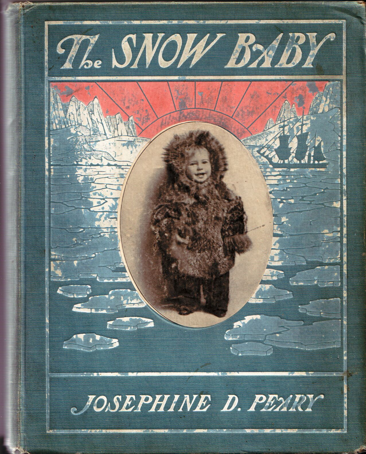 Josephine Diebitsch Peary: The Snow Baby, Frederick A. Stokes Company, New York. A true story with true pictures.